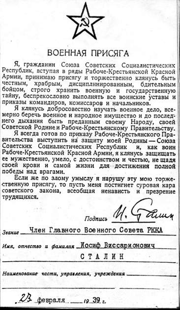 USSR Military Oath, 1939 pattern. Primer signed by J. Stalin